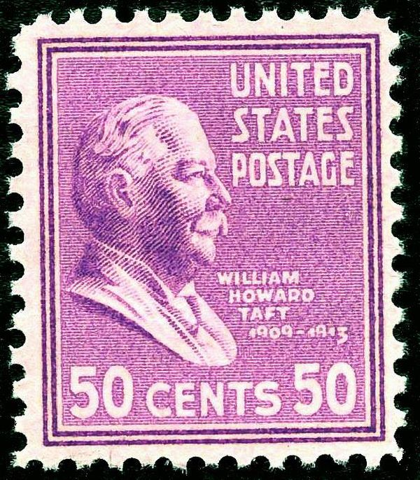 US Postage stamp: William H. Taft, 1938 Issue, 50c, light red-violet